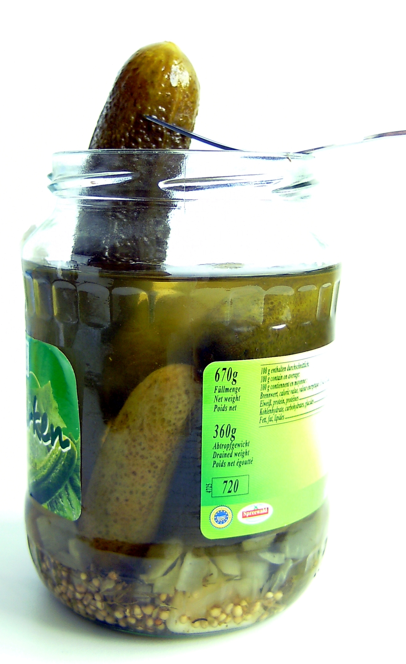 Spreewald gherkins with garlic